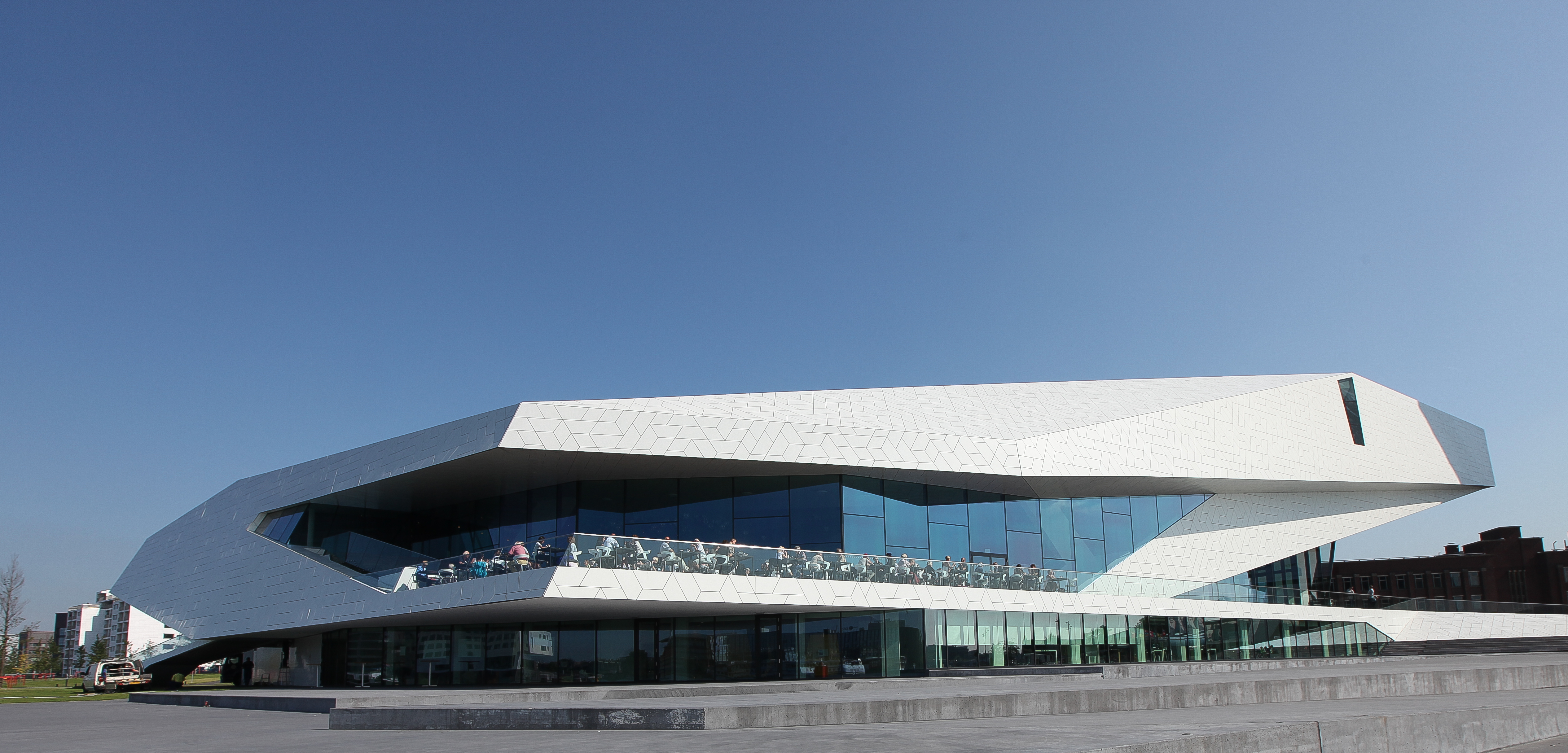 EYE, the filmmuseum, designed by Delugan and Meissl, Associated Architects.